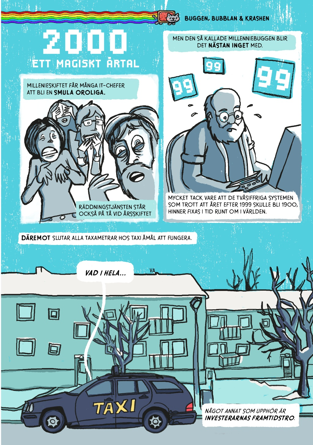 The illustrated history of Internet. A comic created for children and youths illustrated by Jesper Wallerborg for Internetmuseum.